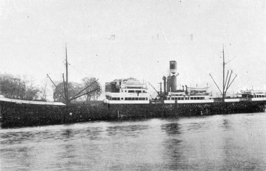 Polish pasenger steamer SS Lodz